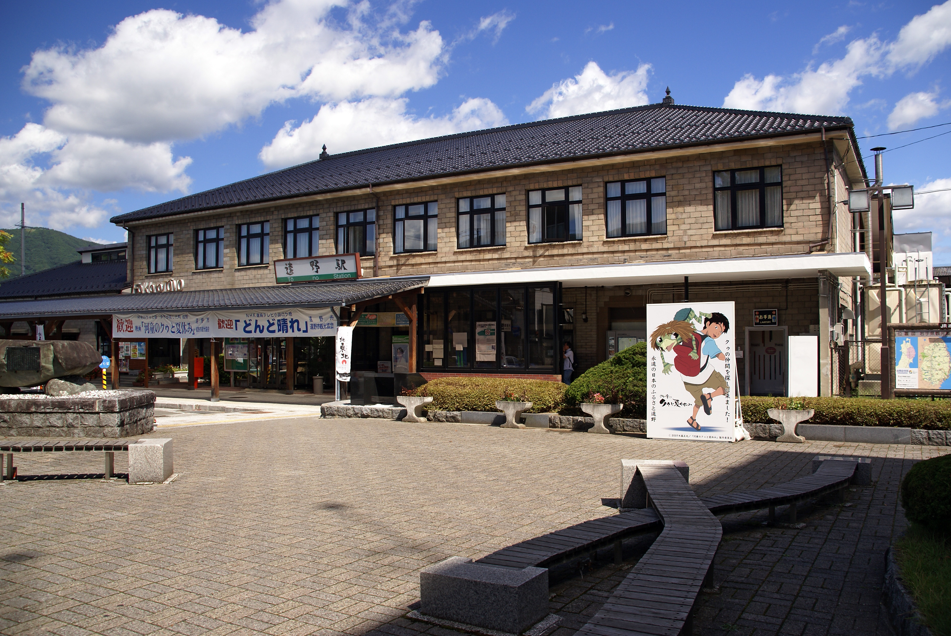 Tono Station in Tono, Iwate prefecture, Japan